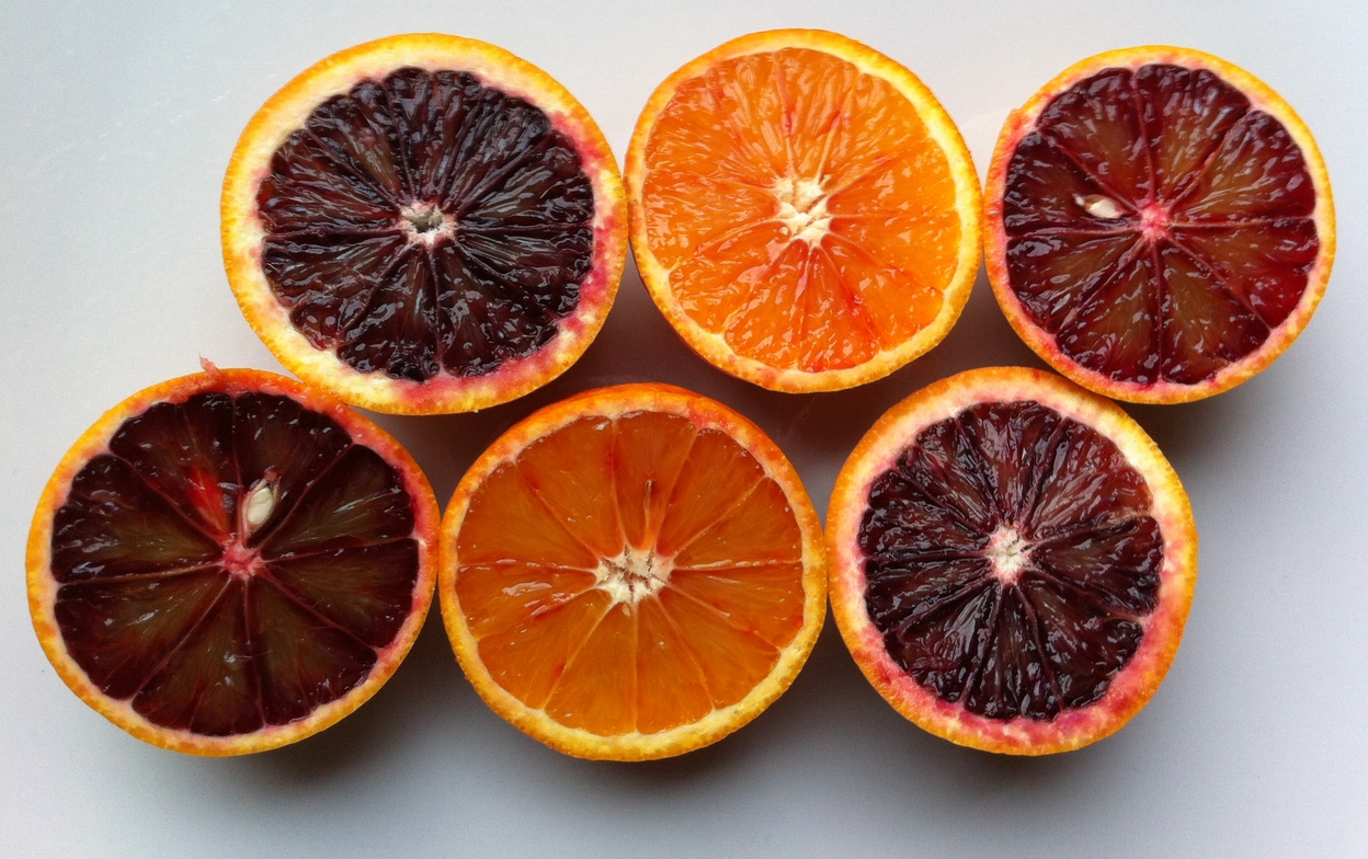 Citrus × sinensis, half of an orange cut in half with a sharp knife and a full, on white background